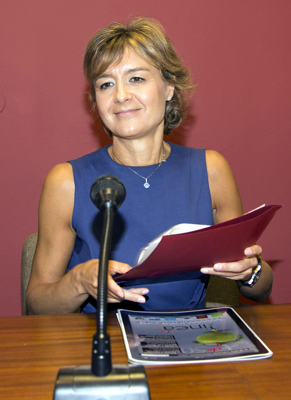 Isabel García Tejerina, Spanish politician.